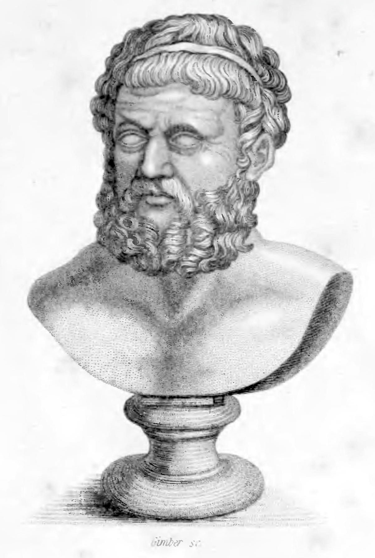 Bust of Pindar from the frontispiece of Pindar and Anacreon (1846)